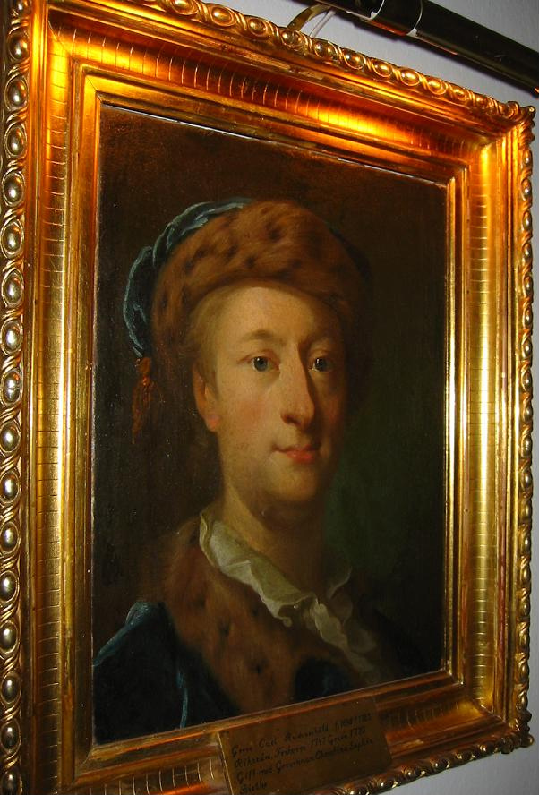 Portrait of Carl Rudenschöld attributed to Lorentz Pasch the elder 1728-29